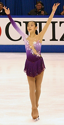 Kim Yu-Na competes in her long program at the 2005 World Junior Championships in Kitchener, Ontario.